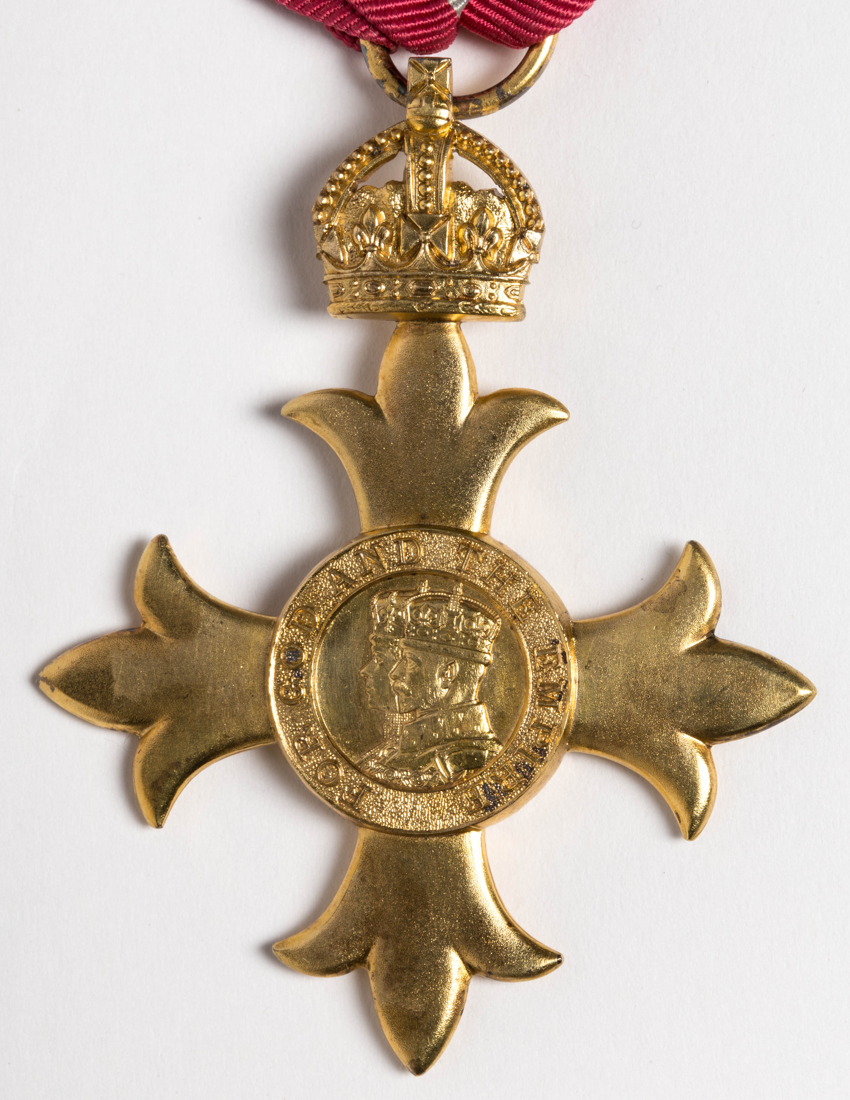 WW1 and WW2 medals - Albert Edward Conway ten medals, packet, envelope See individual records 1996.218.1.1-.12 Medals include- OBE, 1914-15 Star, British War Medal, Victory Medal, Africa Star, War Service Medal 1939-45, NZ War Service Medal, George V and Mary Jubilee Medal, NZ Long and Efficient Service Medal, US Legion of Merit Medal